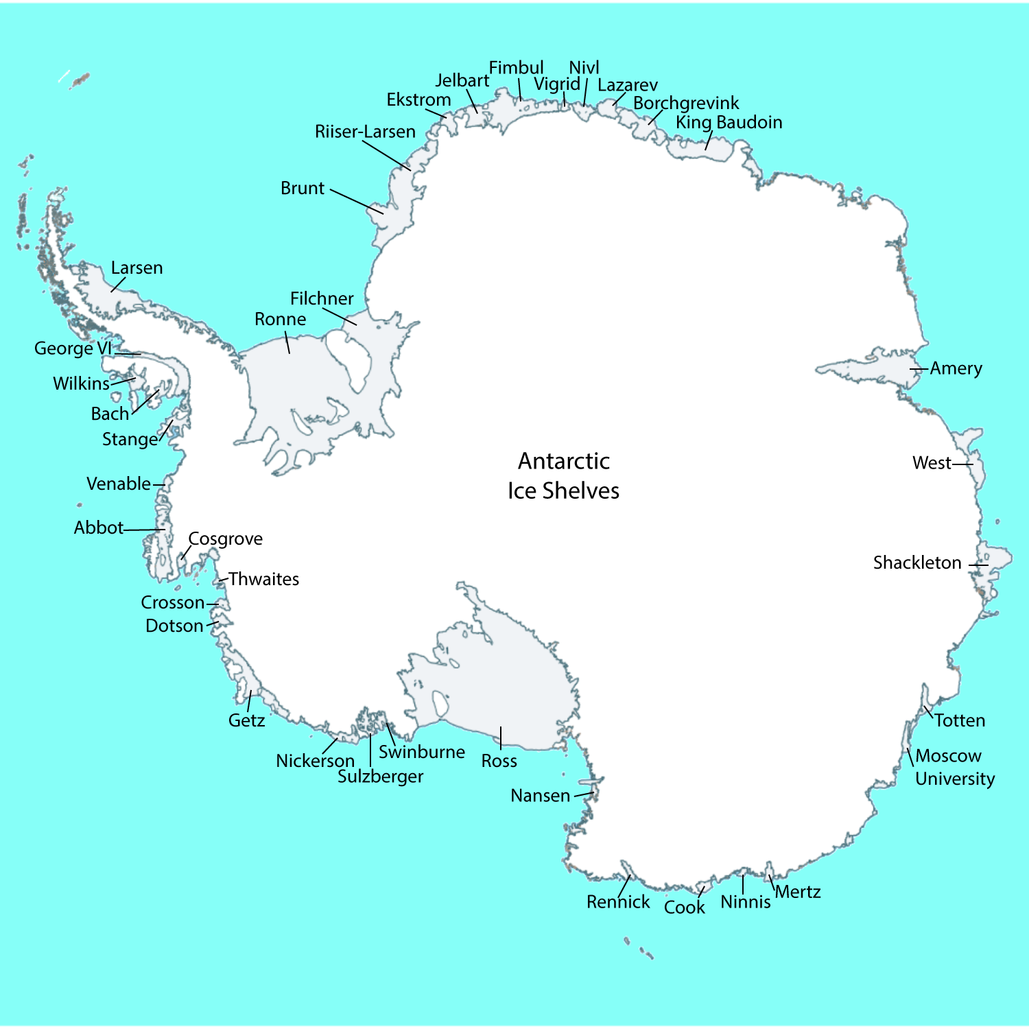 A map of antarctica with ice shelves labeled